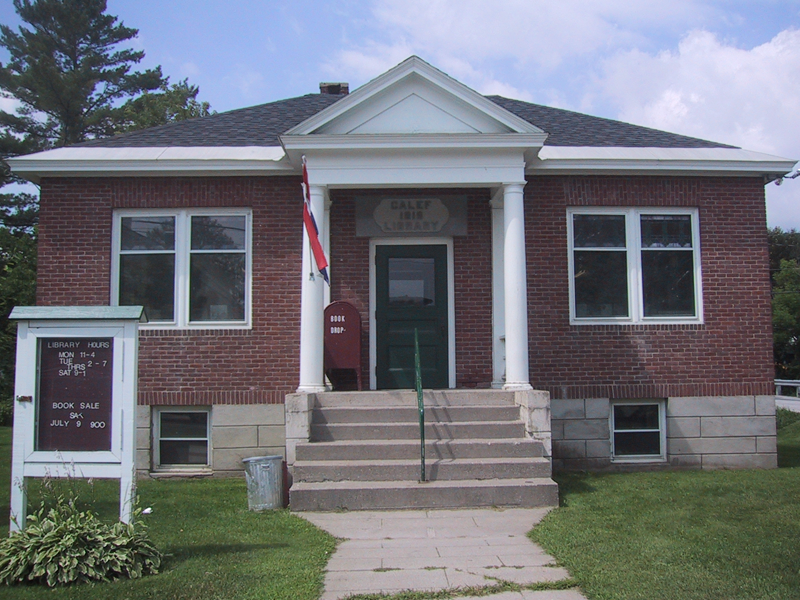 Photo of the Calef Library, Route 110 Washington Vermont Photographer: Jessamyn West